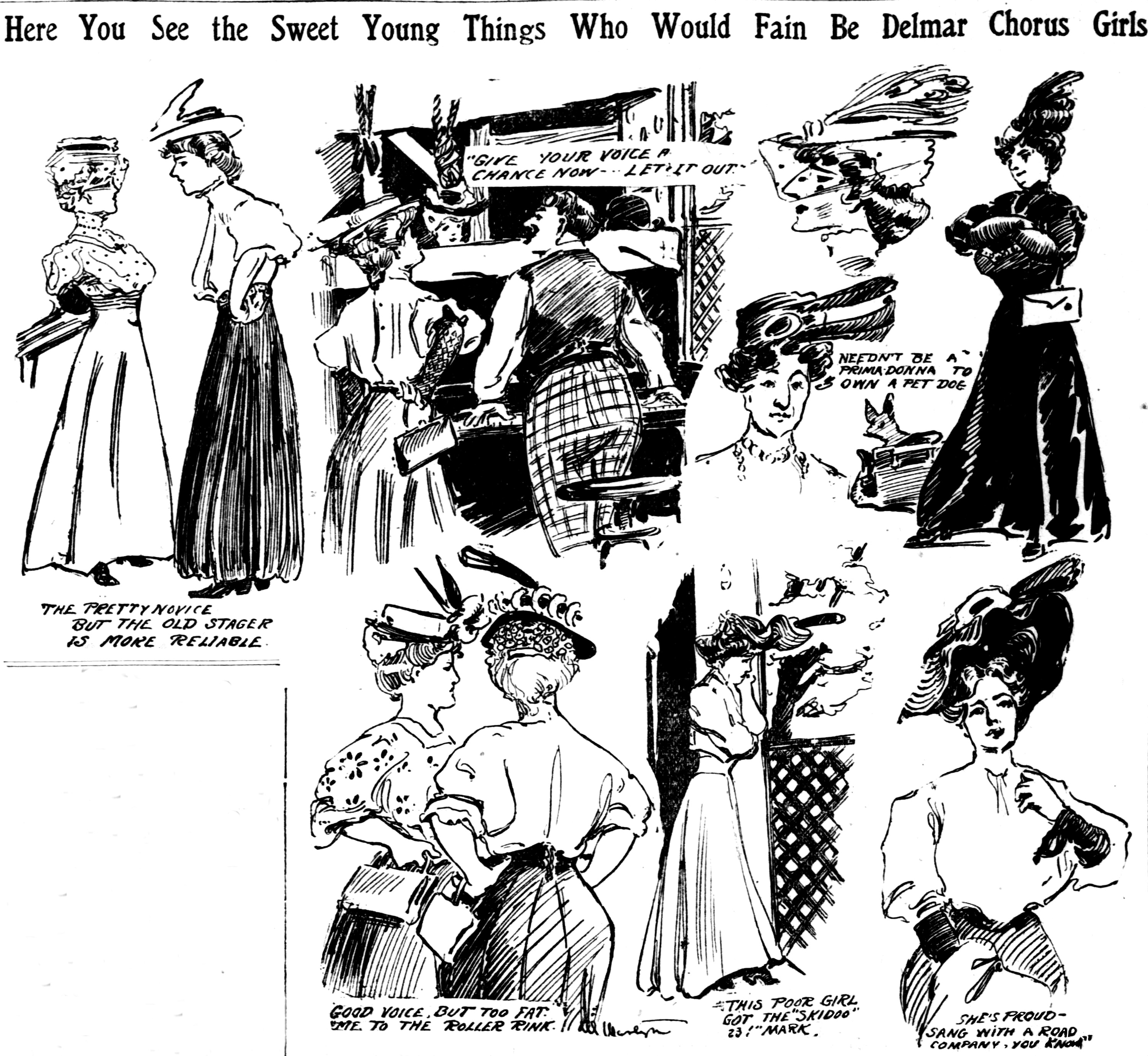 Life sketches by Marguerite Martyn of women at audition for the chorus at Delmar Garden theater in St. Louis, published in the St. Louis Post-Dispatch," May 15, 1906, with quotations by some of the women or the staff.